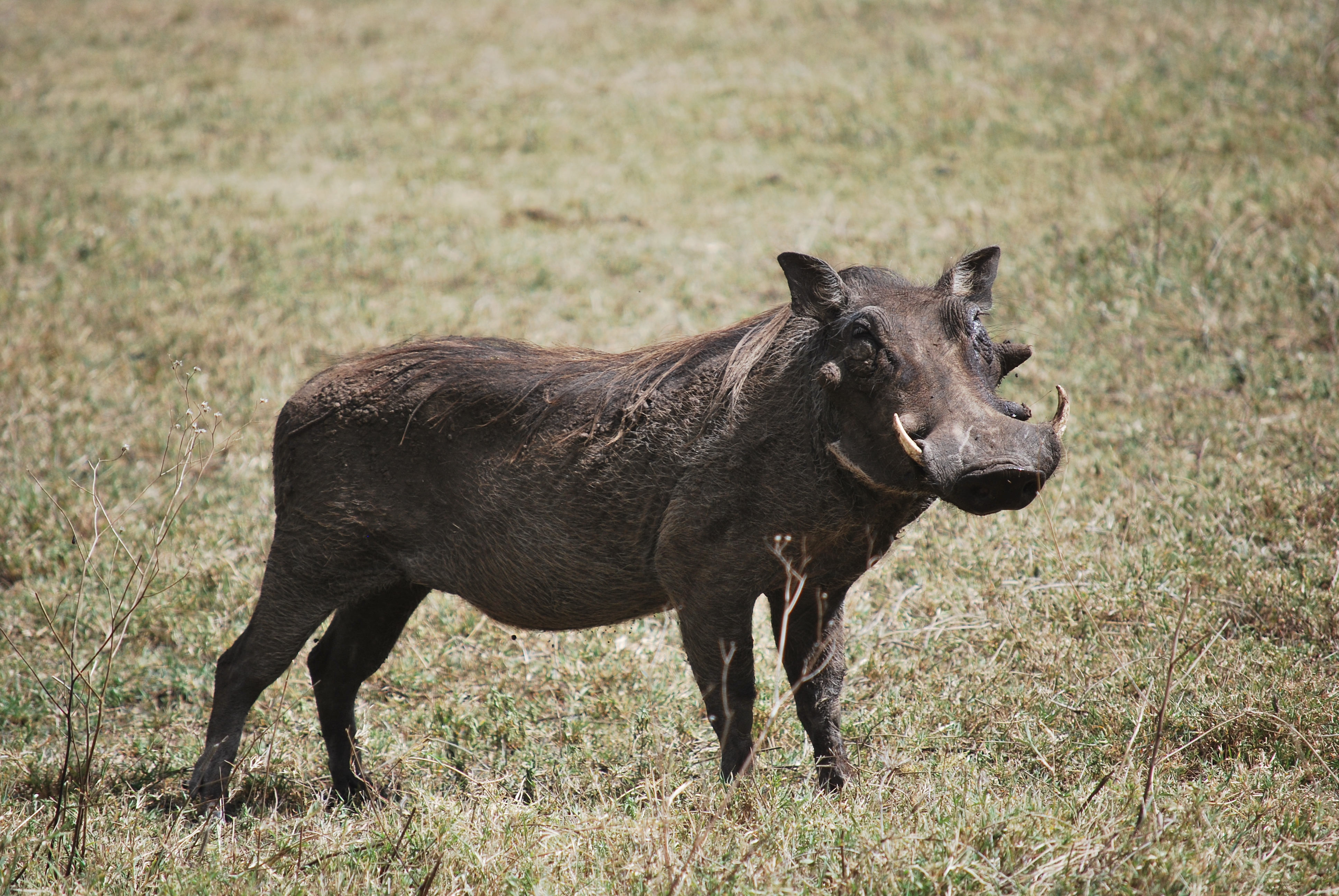 Warthog